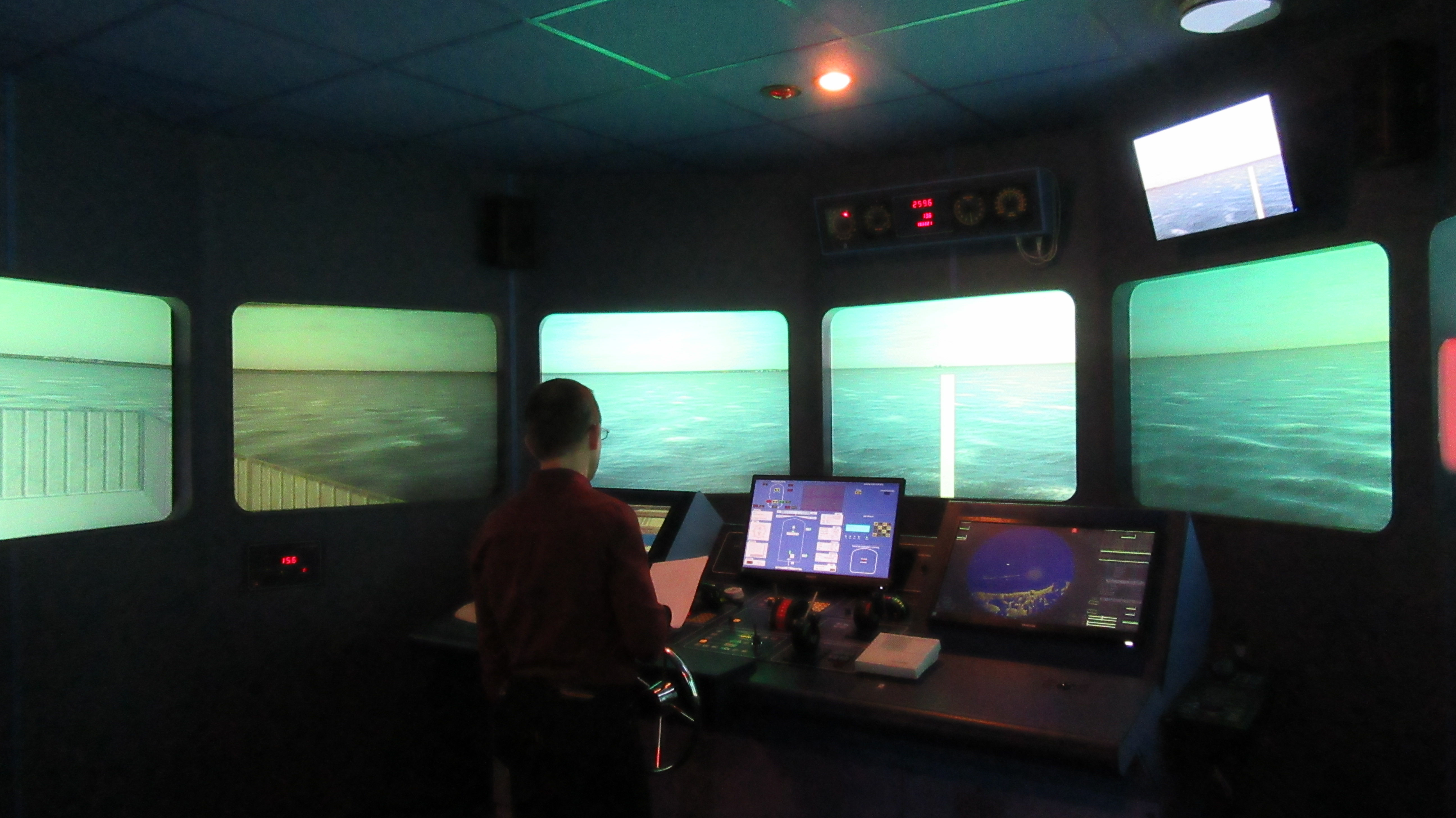 Faculty of Navigation Gdynia Maritime University. Simulator of bridge for navigation pourpose.